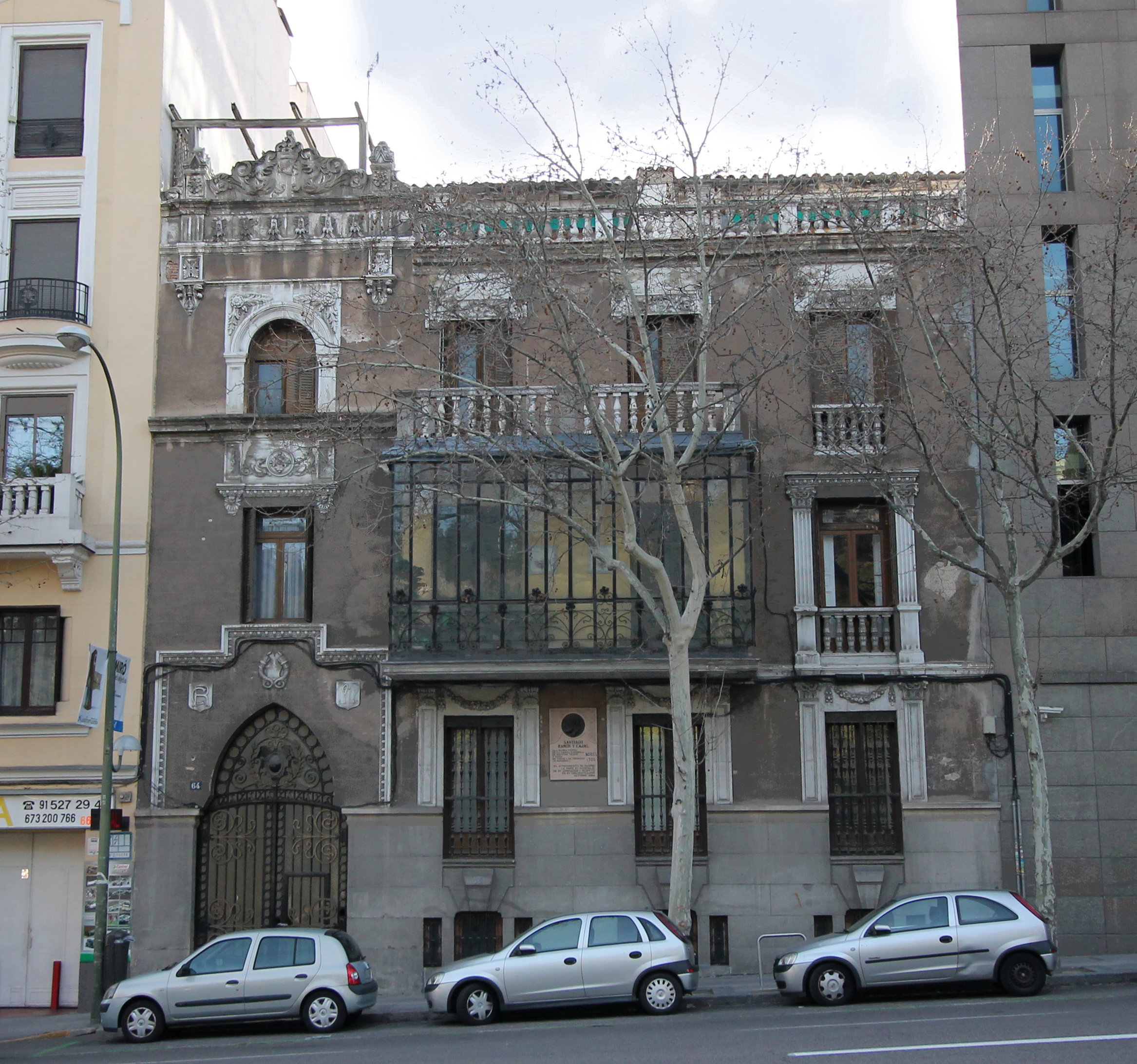 Former housing of Santiago Ramón y Cajal at 64 Calle de Alfonso XII (street) in Retiro District in Madrid (Spain). Building was designed in 1911 by architect Julio Martínez-Zapata and built from 1911 to 1912.